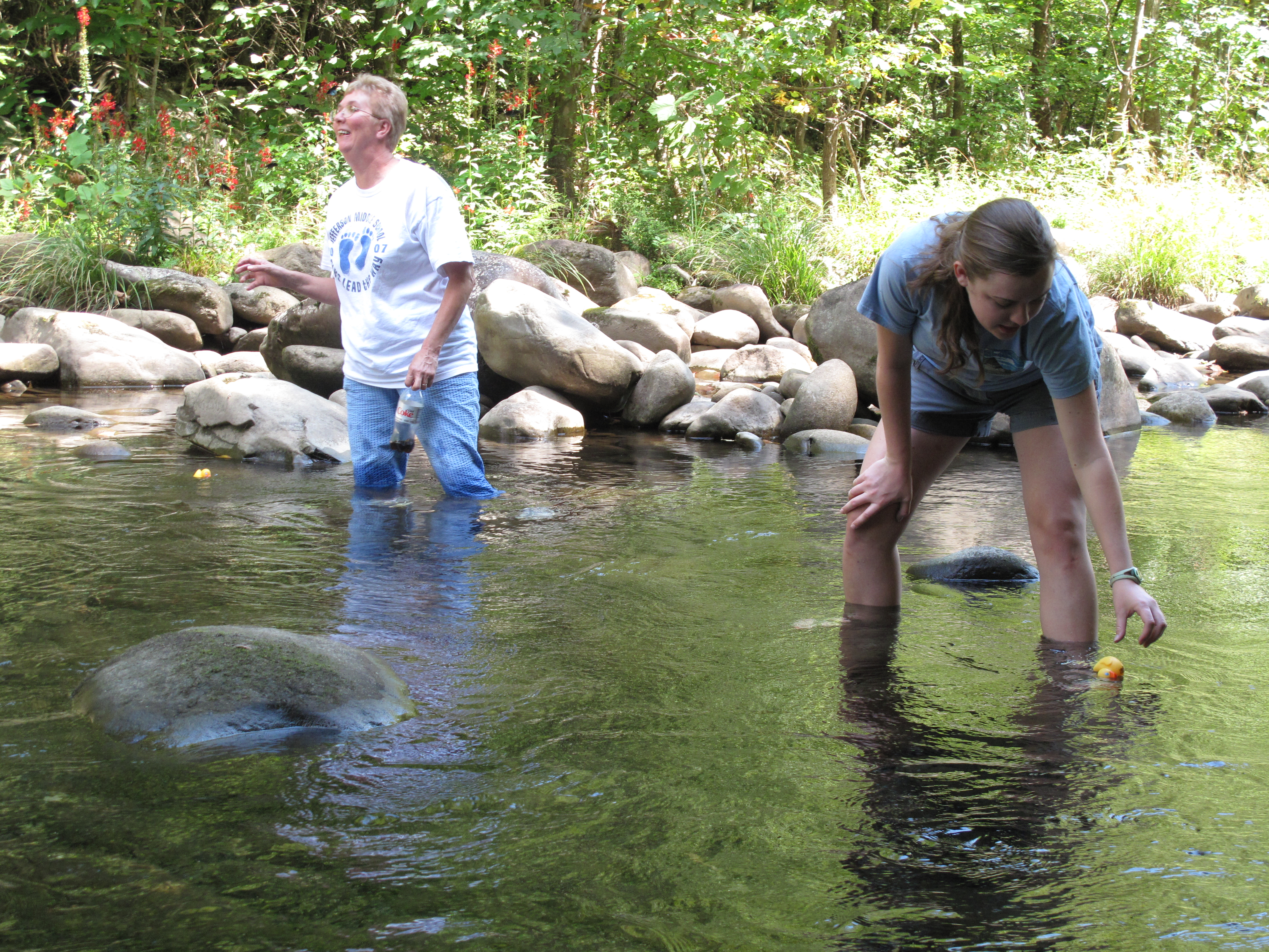 September, 2010 "It's Our Water" water quality workshop, Sugarlands, Great Smoky Mountains National Park. Photo credit: Gary Peeples/USFWS